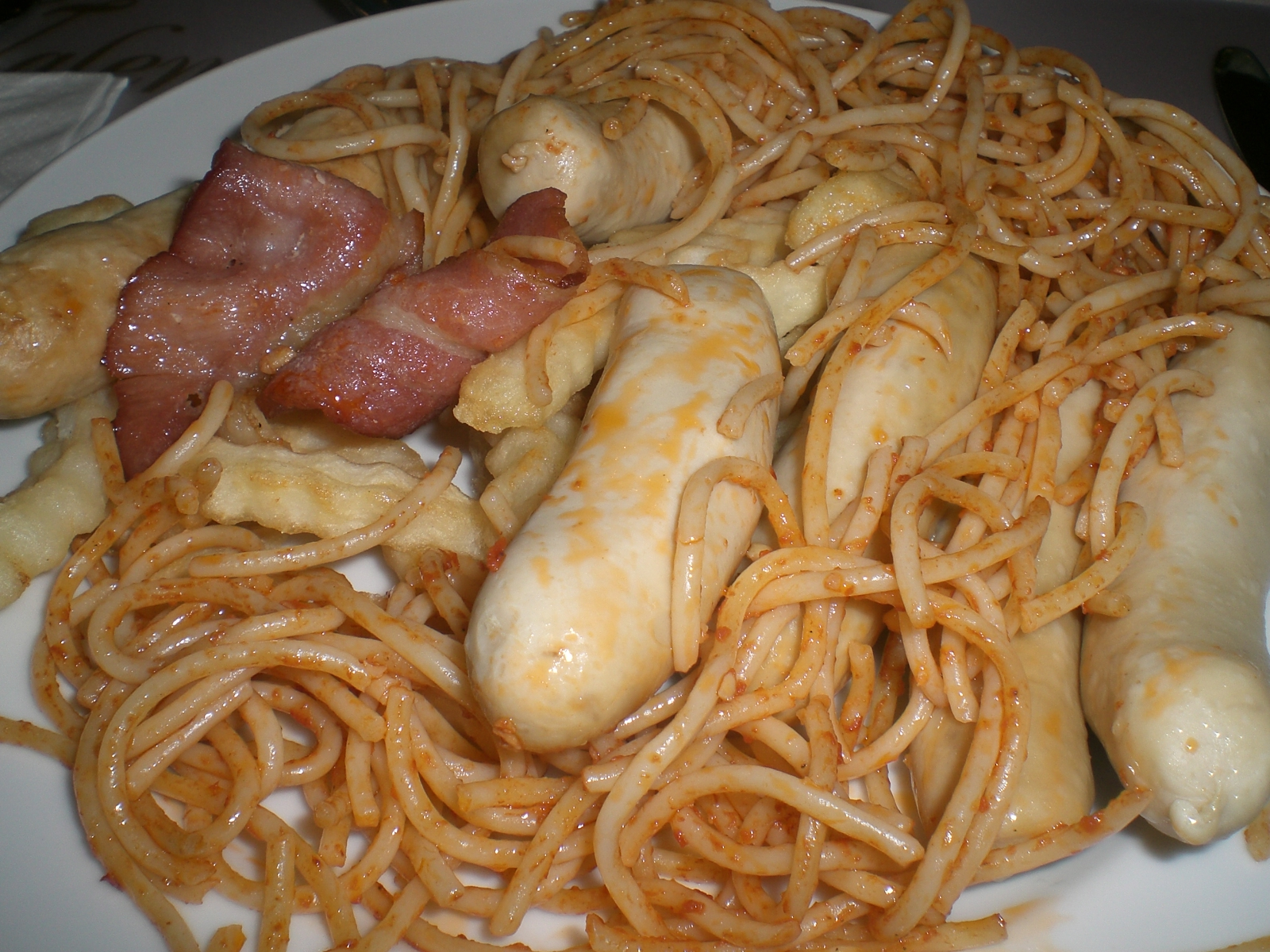 君怡酒店 (澳門), Grandview Hotel, Macau Hotel breakfast buffet: Bacon, Sausages, Spaghetti. Photo author= Mo707